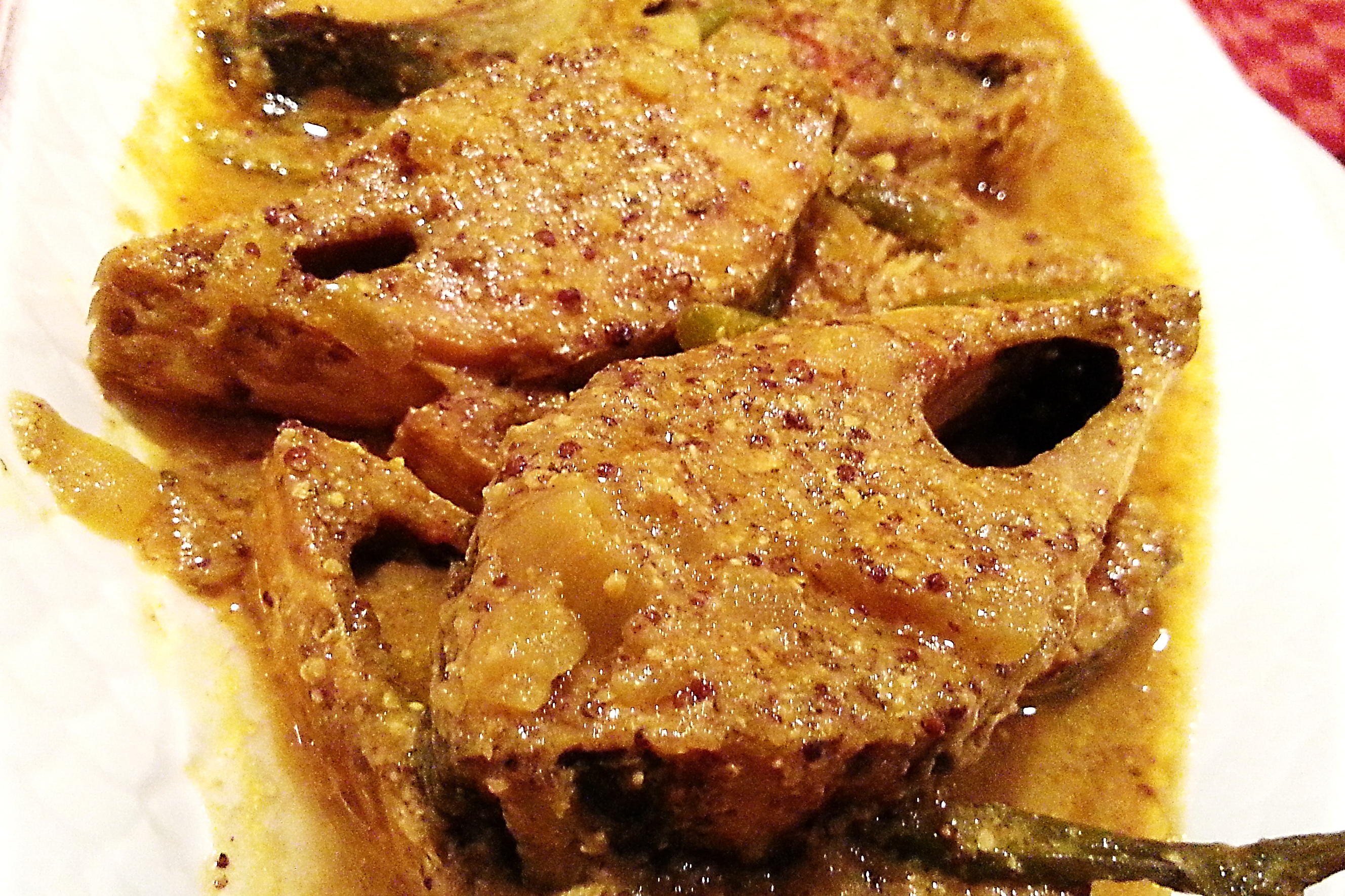 Hilsa smoke-cooked with mustard is a traditional dish in Bangladeshi cusine.